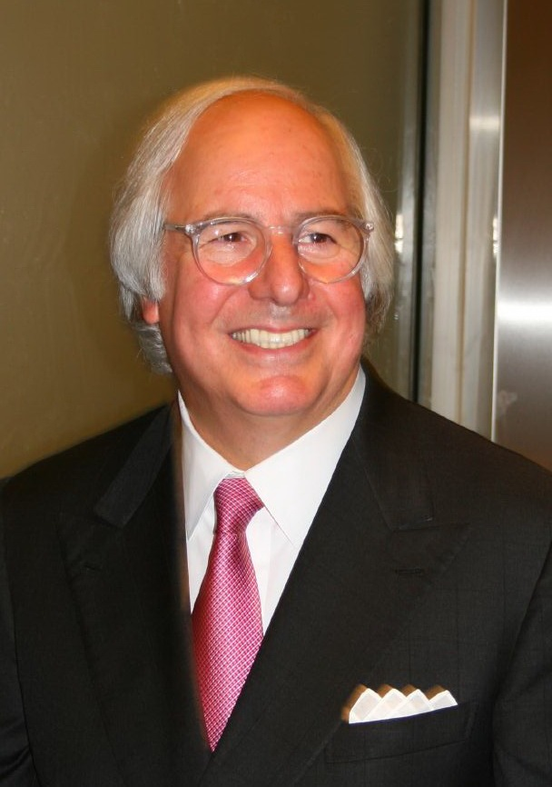 American ex-forger and security expert Frank W. Abagnale Jr. at the CEDIA Expo 2007